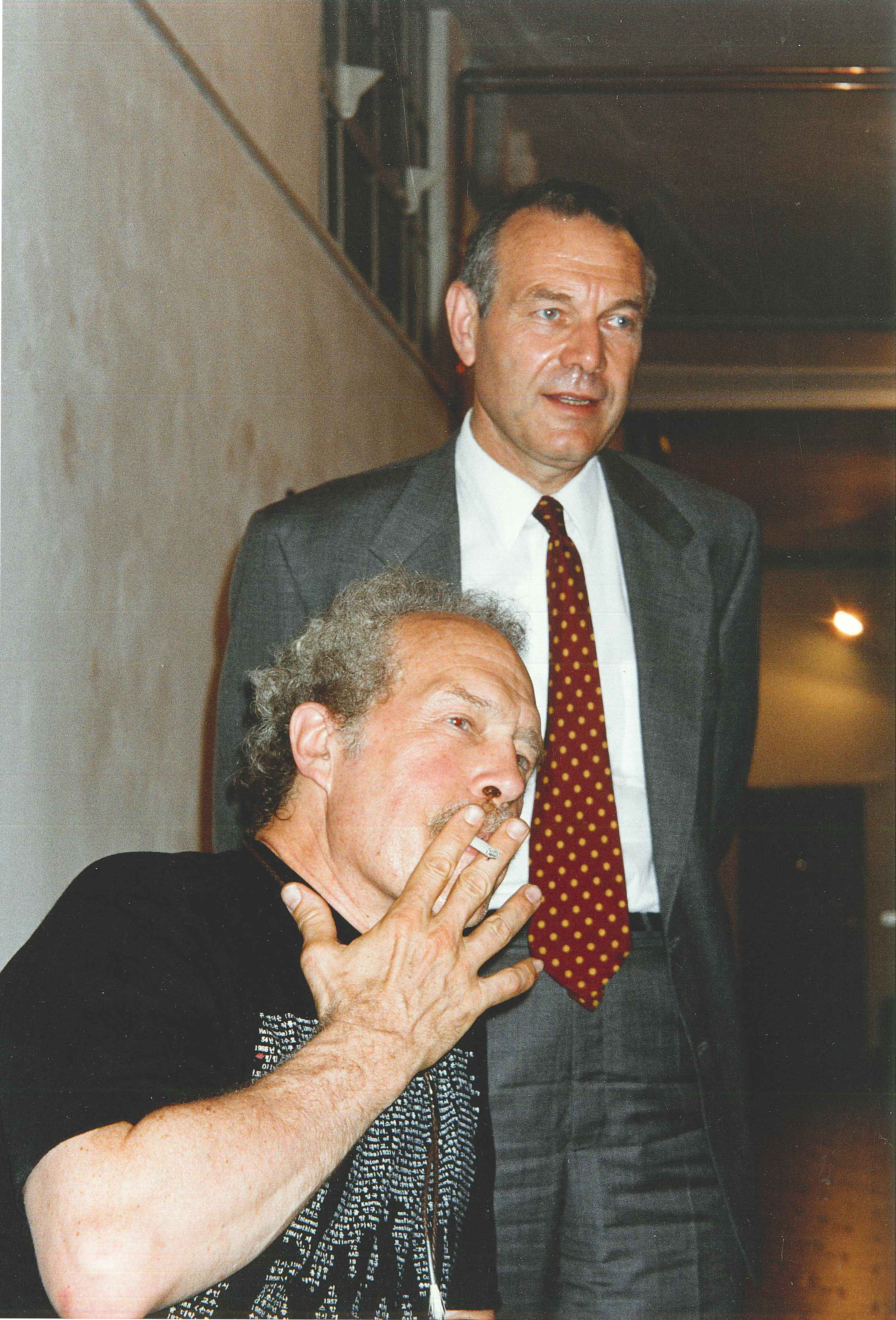 Collector Paolo Della Grazia, founder of the Archive of New Writing, with artist Dick Higgins